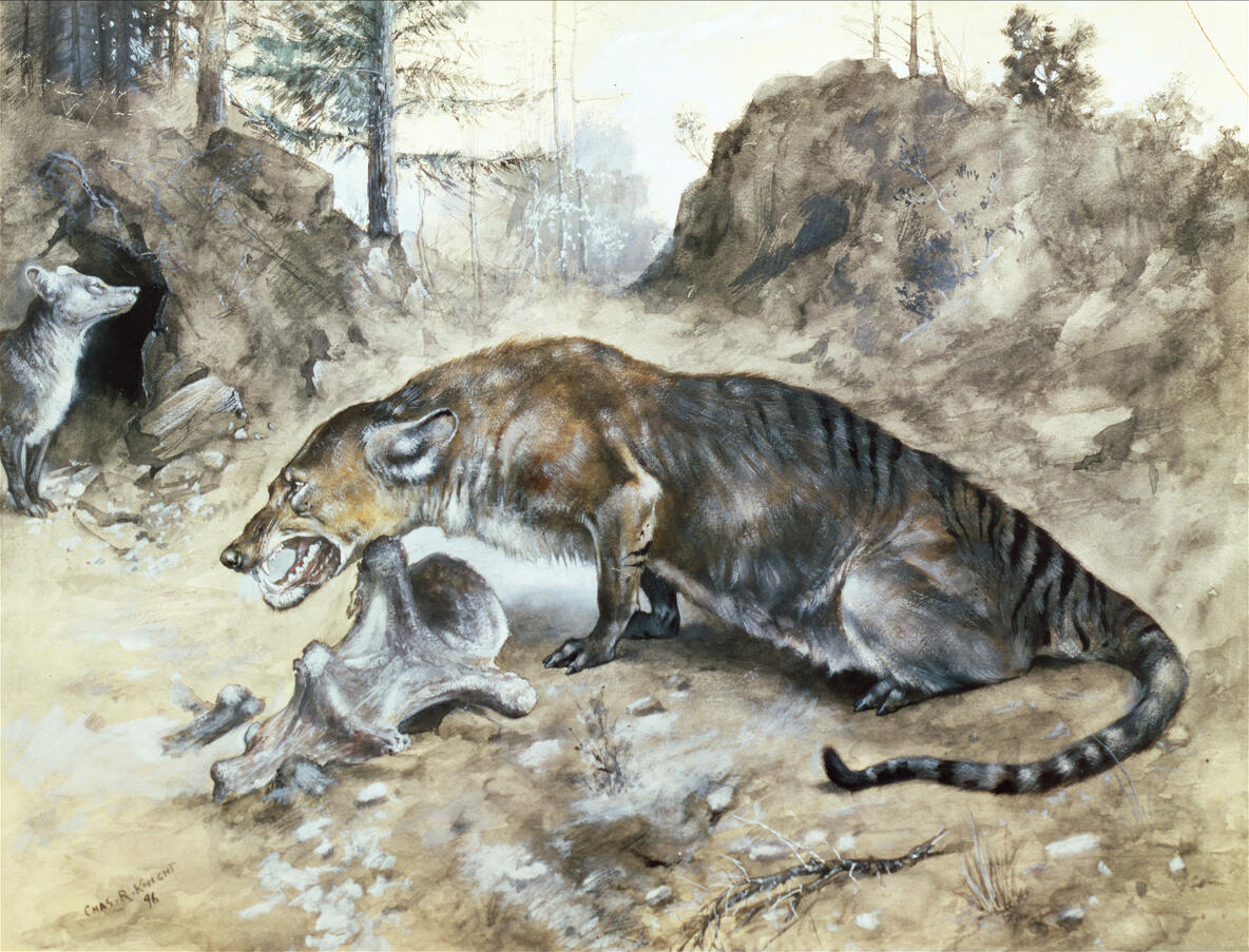 Mesonyx, a wolflike mammal from Eocene Epoch time